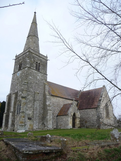 Martin: parish church of All Saints The church is set back from the main village street, up a short driveway.